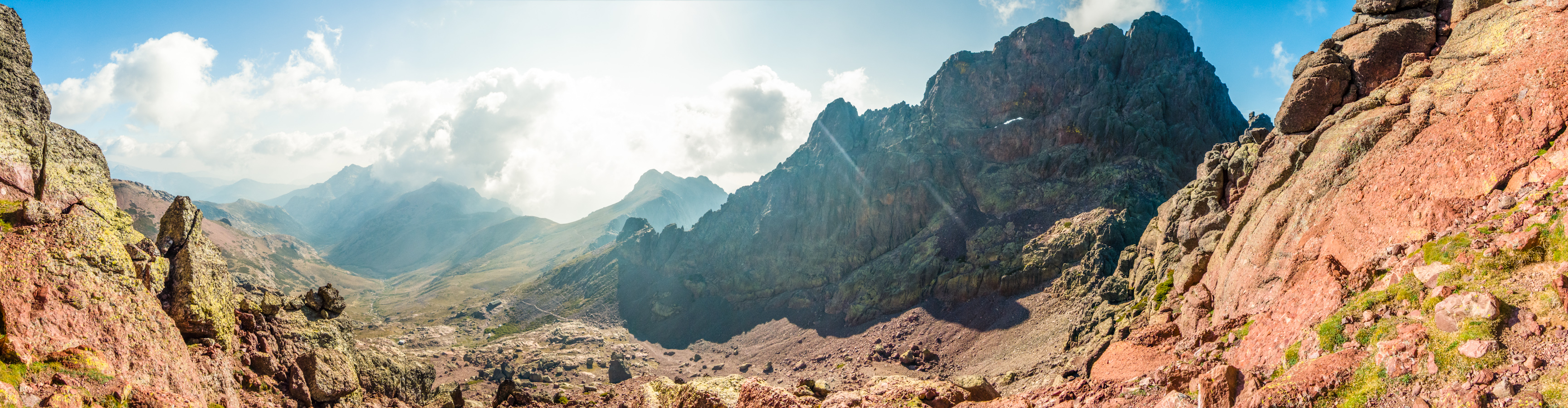 The eastern slope of the Capu Tafunatu (or Capo Tafunato) and Bocca a i Mori (Col des Maures pass) as seen from the Paglia Orba looking to the WSW. Taken on Sept. 30, 2011 at 4:13pm (local time). Other prominent peaks include (from right to left): Capu a e Ghiarghiole hiding partly the Punta Silvastriccia ; Capu di Guagnerola ; Punta di e Cricche ; in the distance, Capu a Rughia and Capu a u Tozzu.